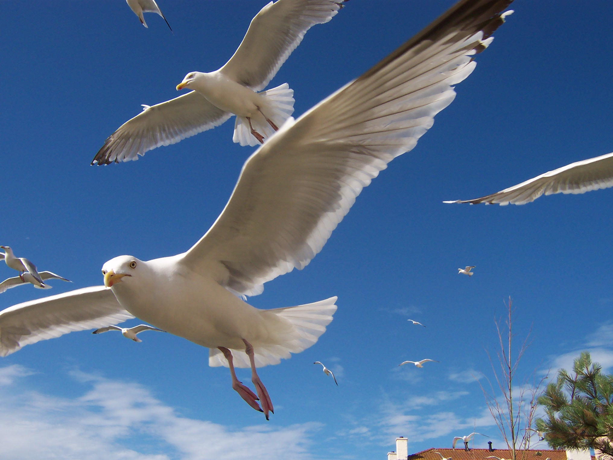 Herring Gulls flying against fast wind.